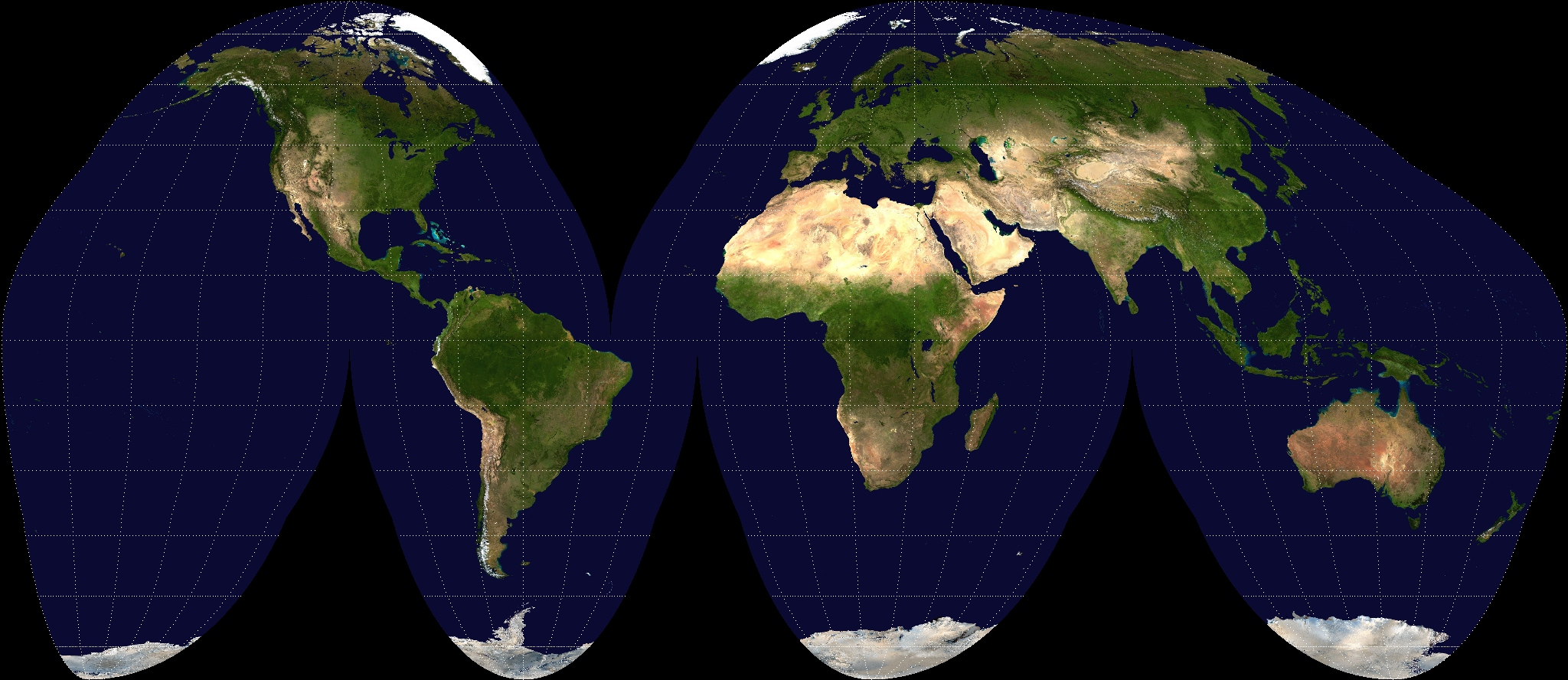 Goode-homolosine projection of the Earth. Source image is from NASA's Earth Observatory "Blue Marble" series.